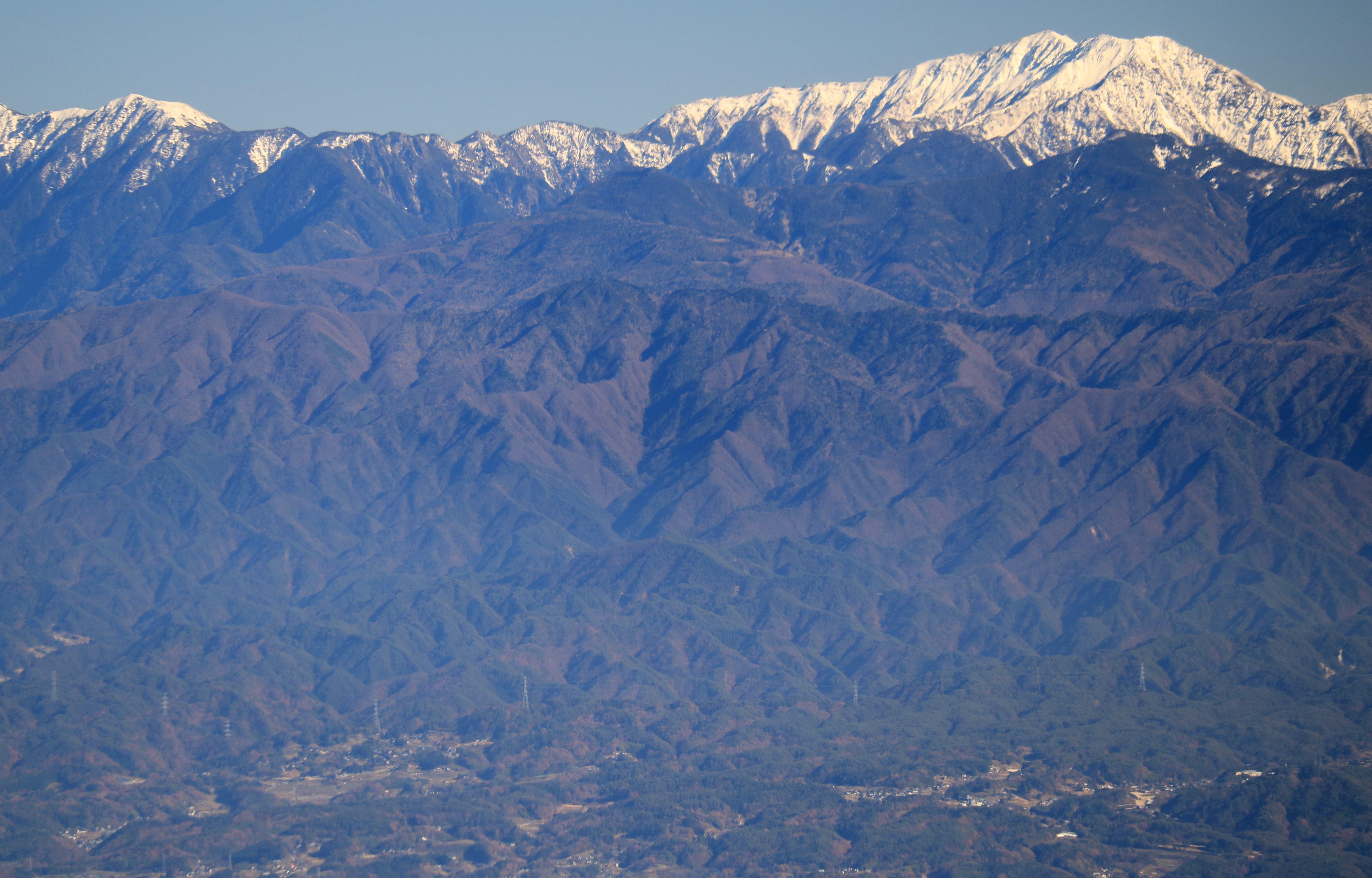 Mount Kimen of Ina Mountains and Akaishi Mountains seen from Mount Ena in Nagano prefecture, Japan.